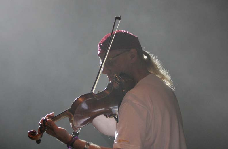 Ric Sanders at Fairport's Cropredy Convention, 2005